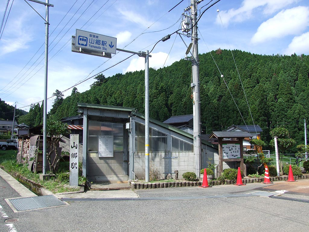 Chizu express railway Chizu line. Yamasato station.